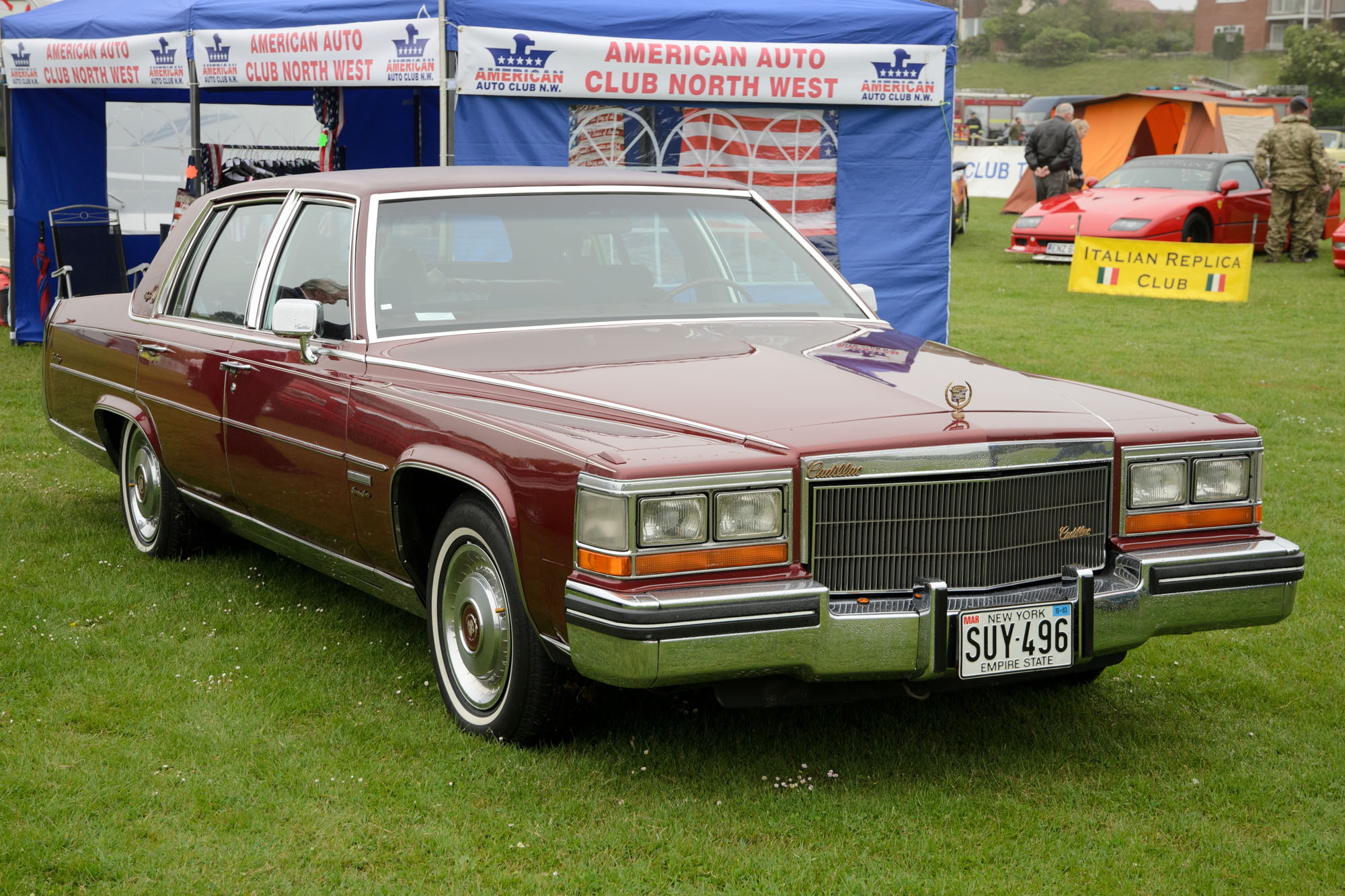 Woodvale Transport Festival 20/06/2015